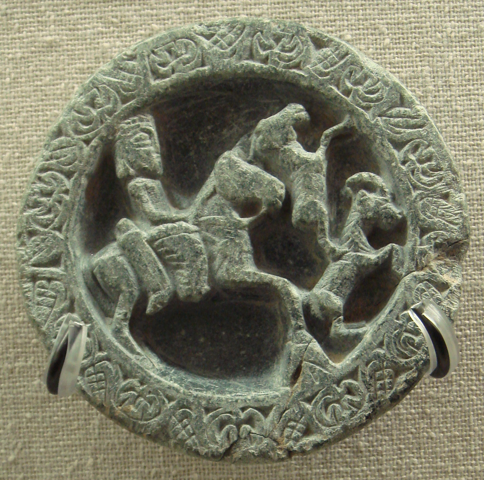 Indo-Parthian man hunting. Ancient Orient Museum. Personal photograph 2006.